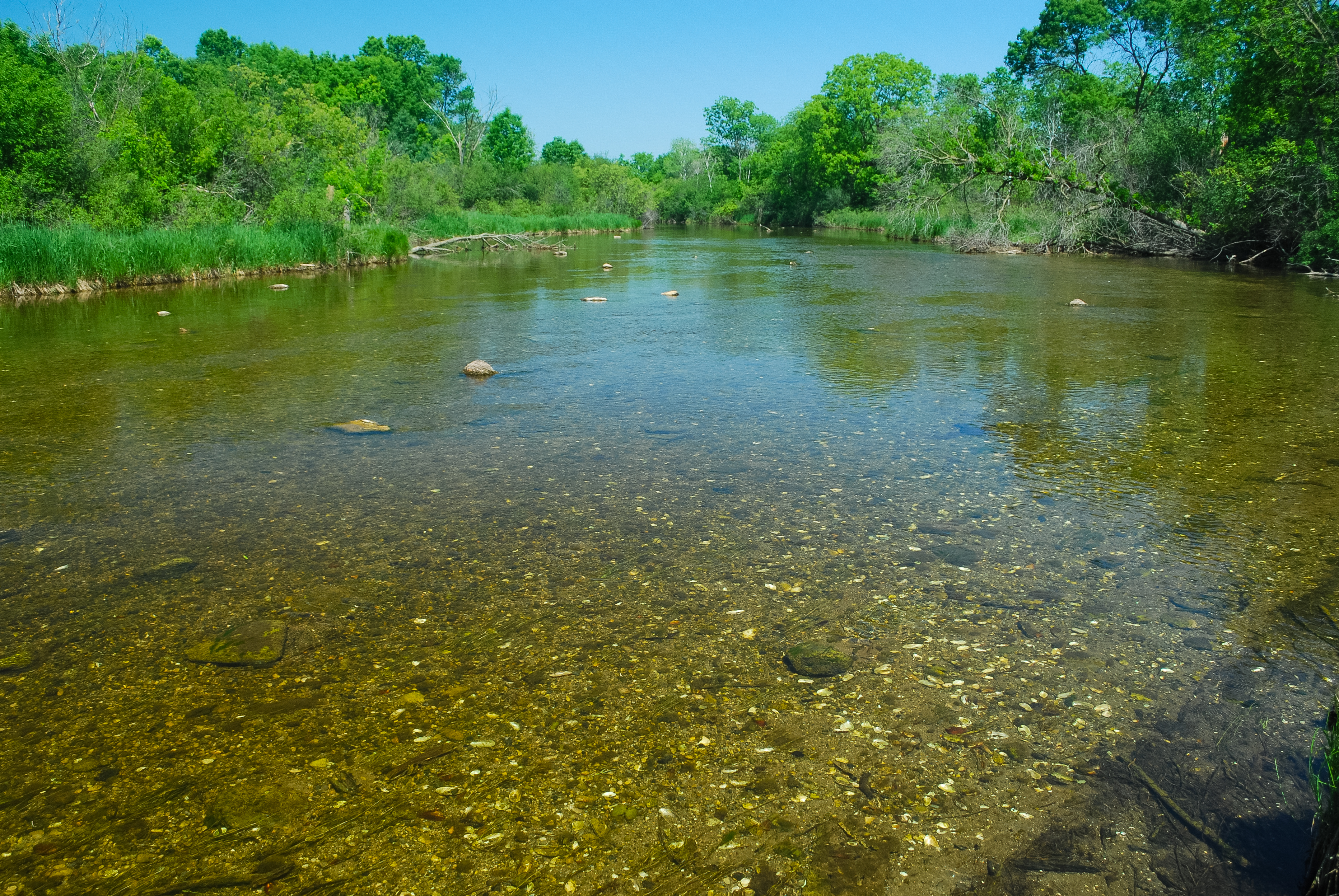 Mukwonago River Wisconsin State Natural Area #417 Waukesha County